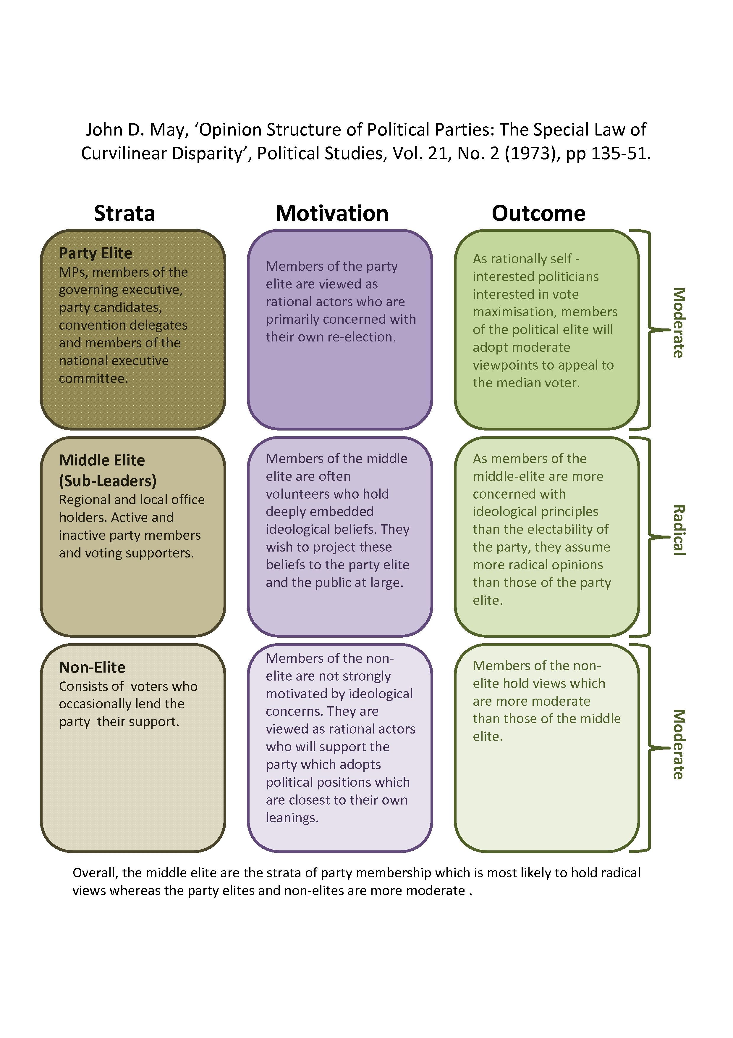 Graph outlining the Law of Curvilinear Disparity.